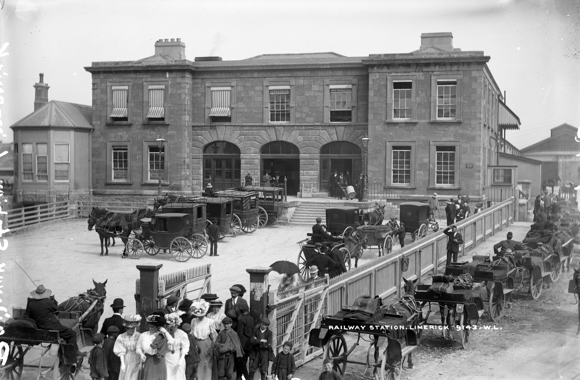 It looks as if some quite stylish ladies have just alighted from a train at Limerick Railway Station, though they're of no interest to local children who are completely focused on the photographer. Delighted to see a poster in this one that gives us great dating evidence as it advertises the International Exhibition, with a Fast Excursion to Dublin on Tuesday 23rd, though unfortunately can't make out the month. The International Exhibition ran in Dublin from May to November 1907. Date: 1907 NLI Ref.: L_CAB_09143